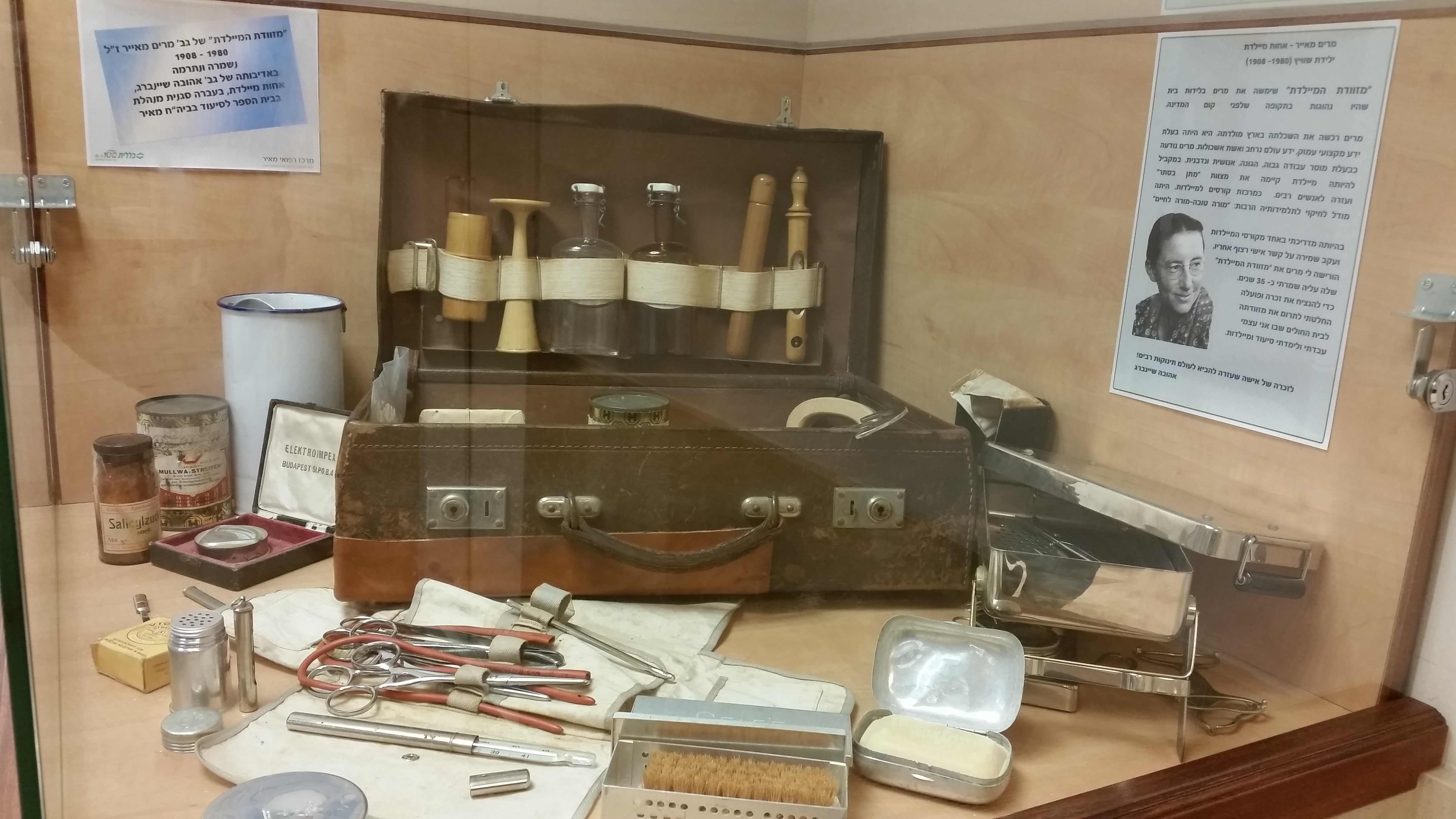 The midwife suitcase of Miriam Meir